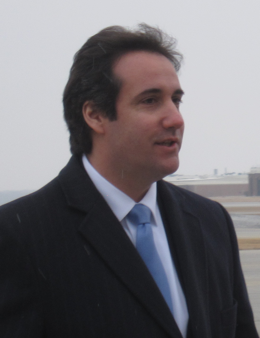 Trump executive Michael Cohen 012